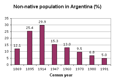 Percentage of non-native (foreign born) population in Argentina according to official censuses in the period 1869–1991. From data and graphic on source: Instituto Nacional de Estadísticas y Censos (INDEC), Argentina. I, Pablo D. Flores, made this chart myself.